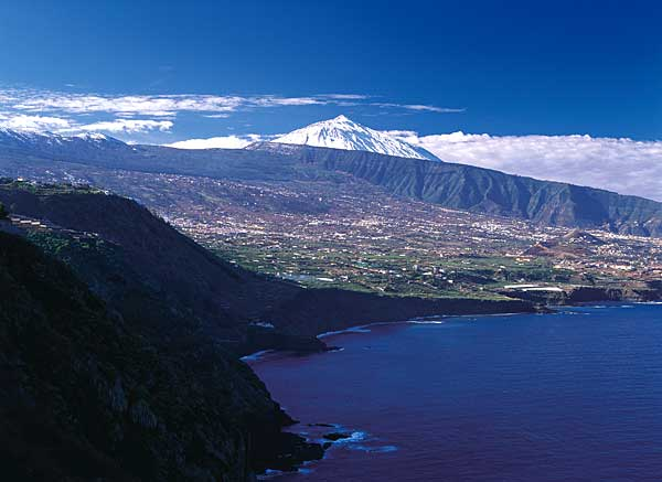 Valle de La Orotava, north of Tenerife.